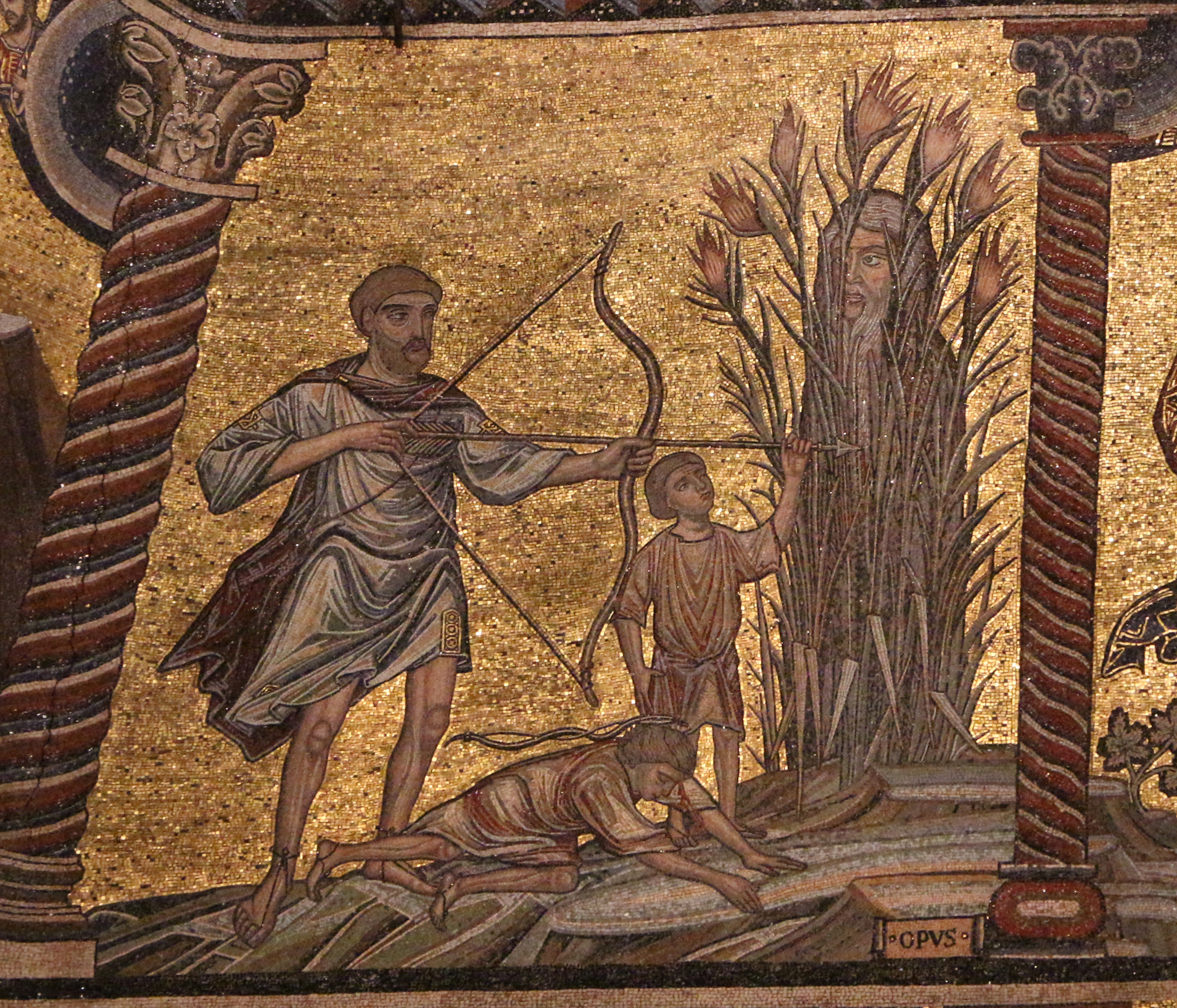 Genesis in the Florence Baptistry mosaics